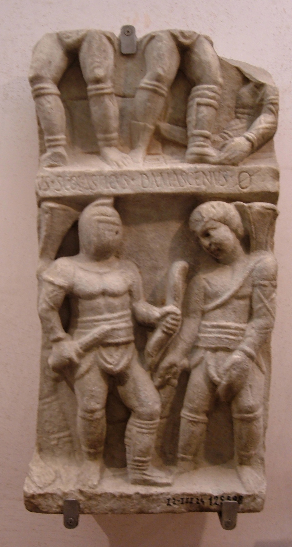 Retiarius against Secutor. Text reads: "...VS SCOLASTICVS DAMASCENVS", probably a name" "..us Scolasticus of Damascus"